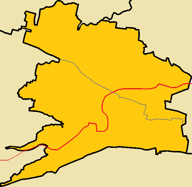 Ayios Dhometios Municipality with quarters (de jure).